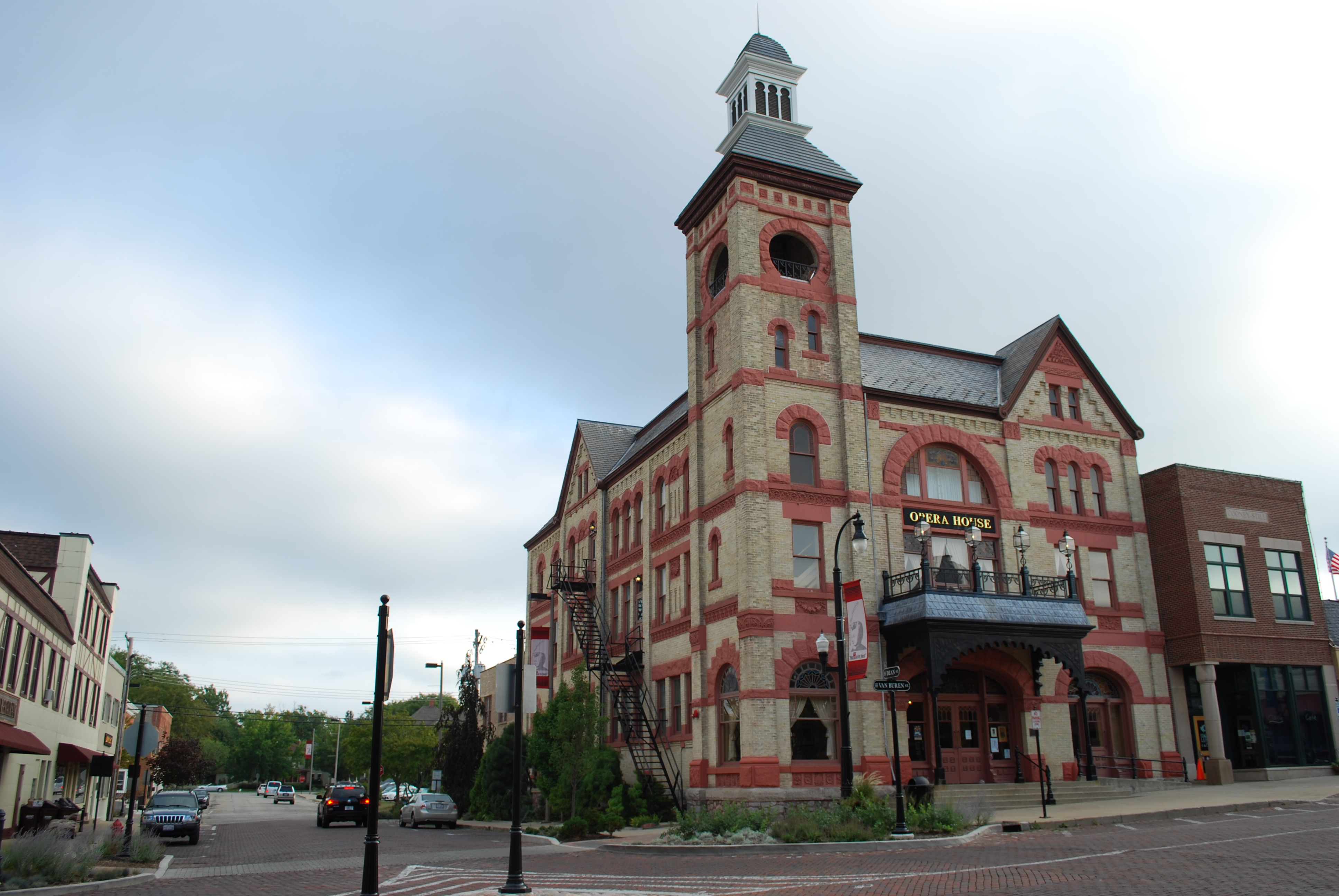 Woodstock Opera House